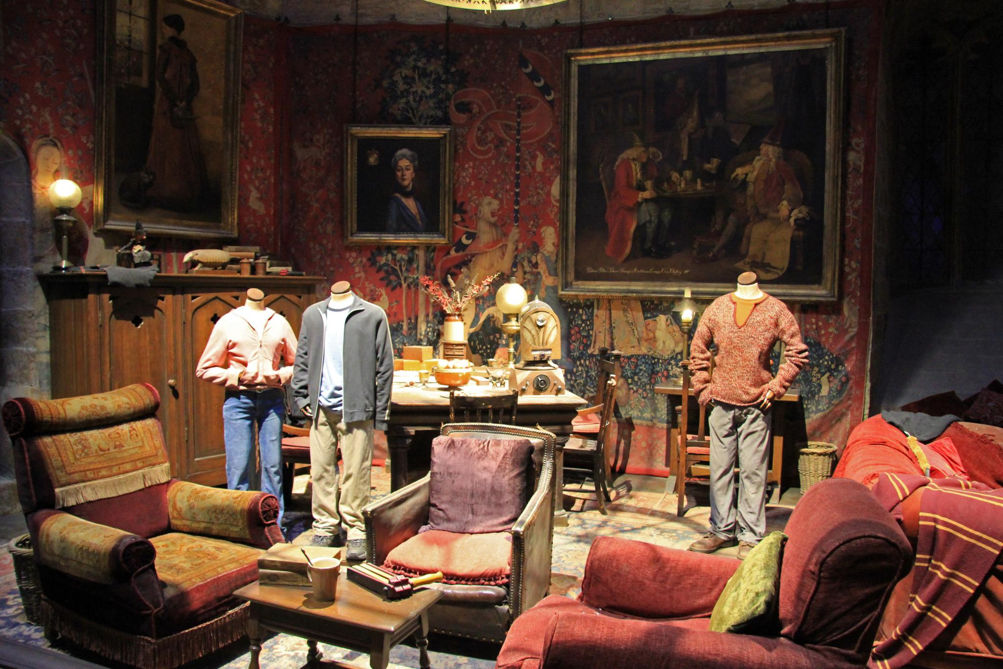 Warner Bros. Studio Tour London: The Making of Harry Potter.